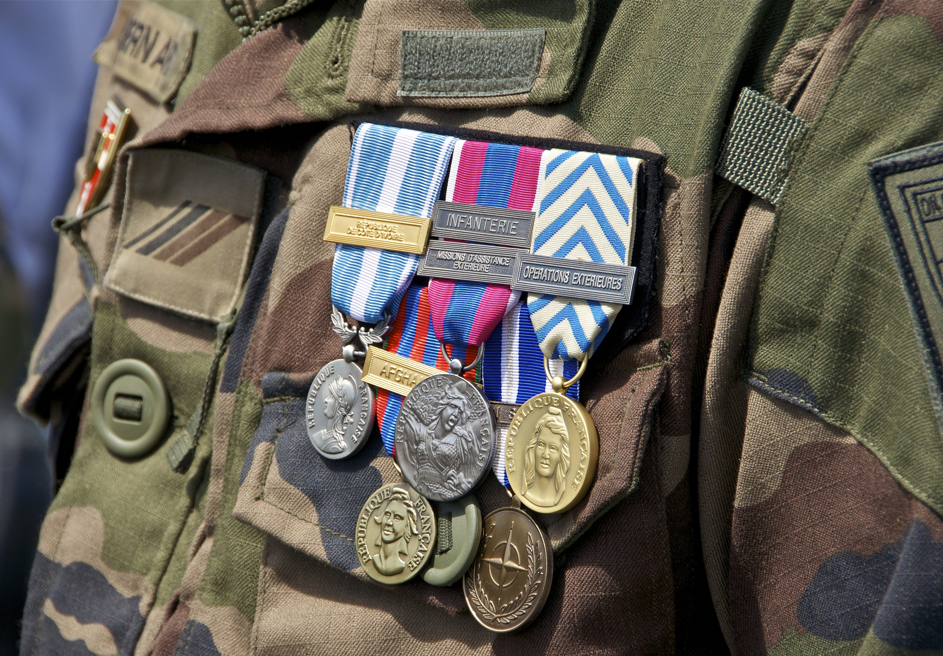 French and NATO medals on the uniform of a chief-corporal of the french 1st infantry regiment. The oldest regiment of France: created in 1479.